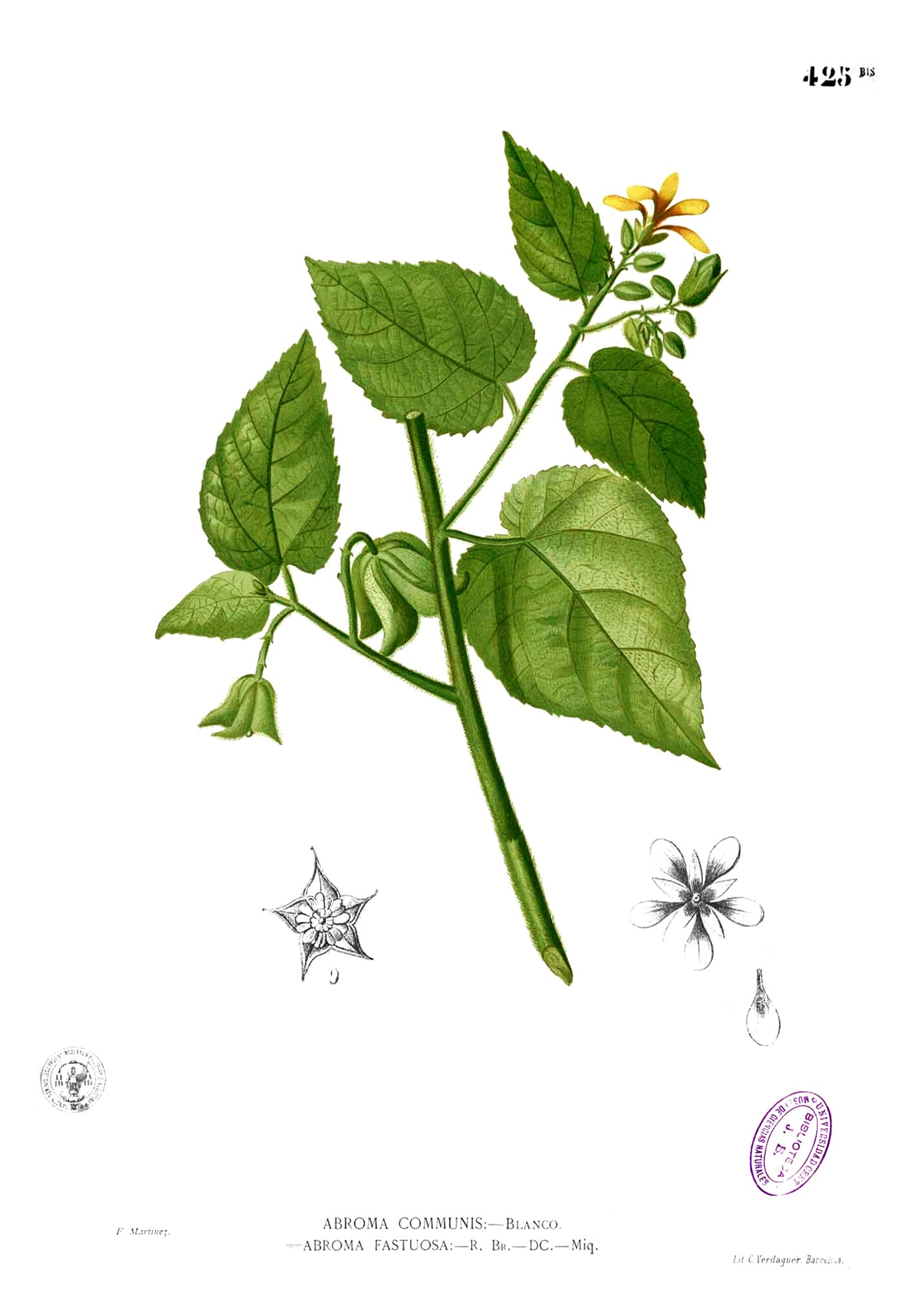 Plate from book